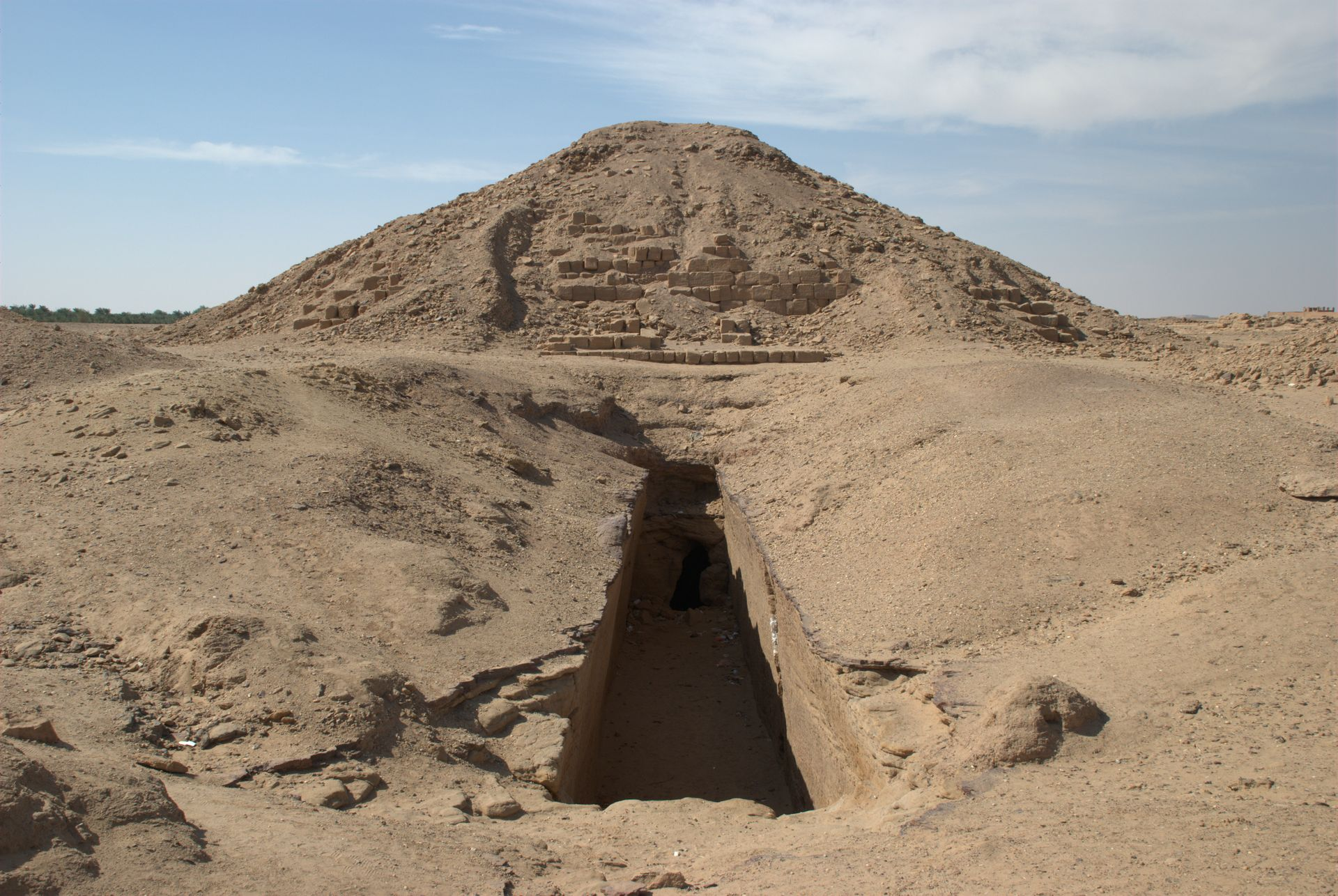 Pyramid K.1. of the 4th century BC at El-Kurru, south of Jebel Barkal, North Sudan.